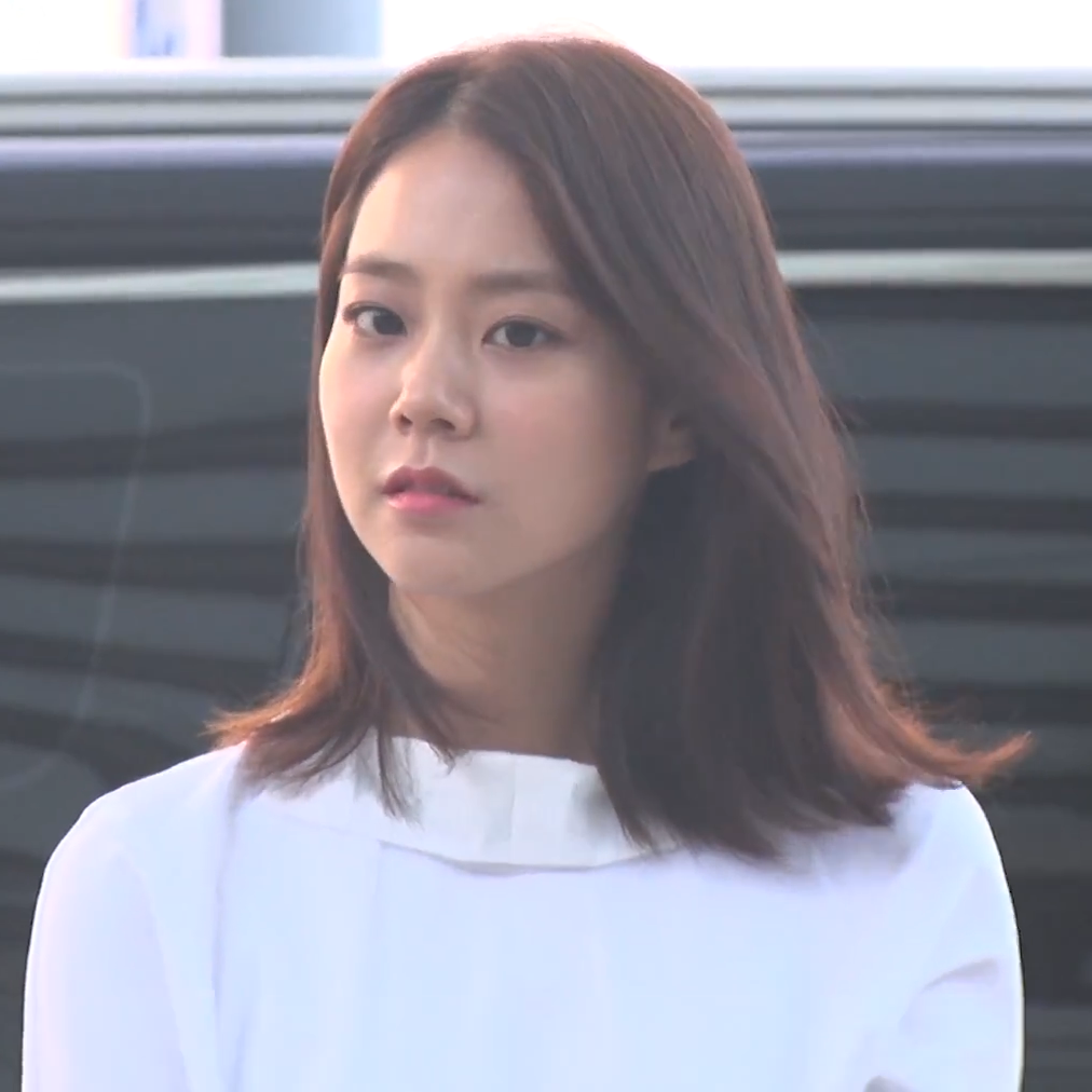 180822 Han Seungyeon at Incheon International Airport on August 22, 2018